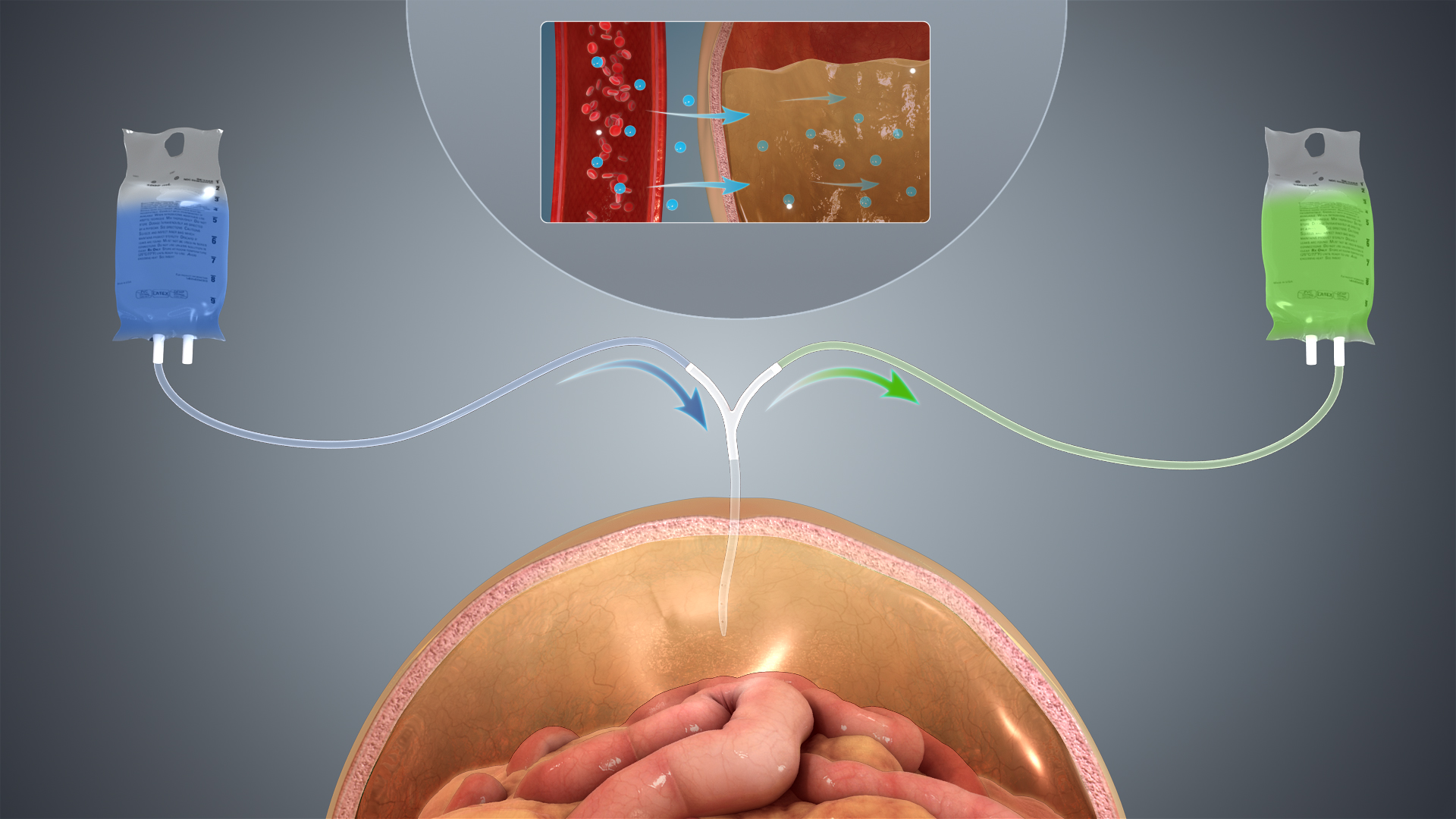 Peritoneal dialysis in case of kidney failure ensures survival until a transplant can be performed.